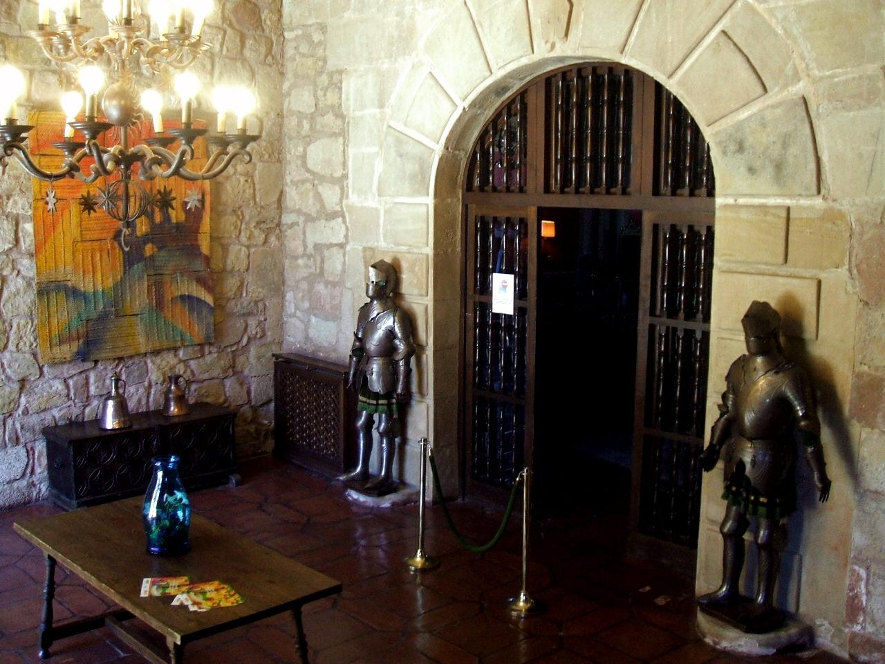 Castillo y Parador Nacional de Sigüenza (Guadalajara, Castilla-La Mancha, España)